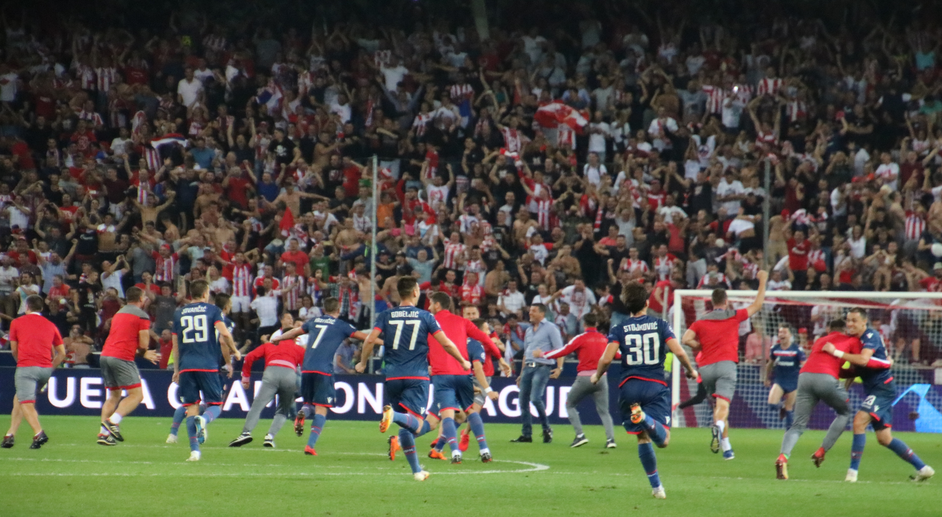 CL PLay off 29. August 2018 2nd leg